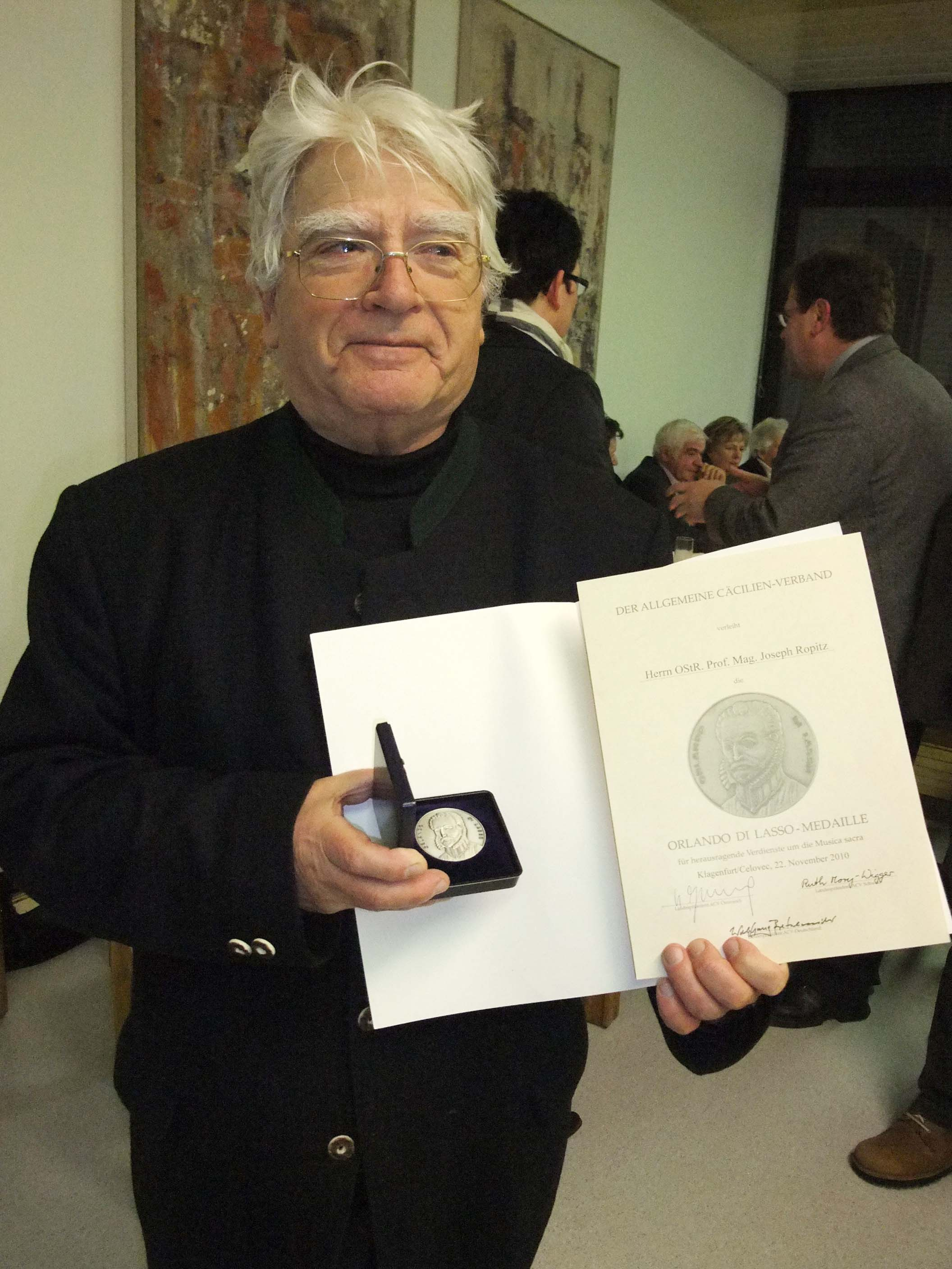 Award of Orlando di Lasso medal at the choir director Prof. Joze Ropitz from Gallus choir in Klagenfurt /Austria / EU.